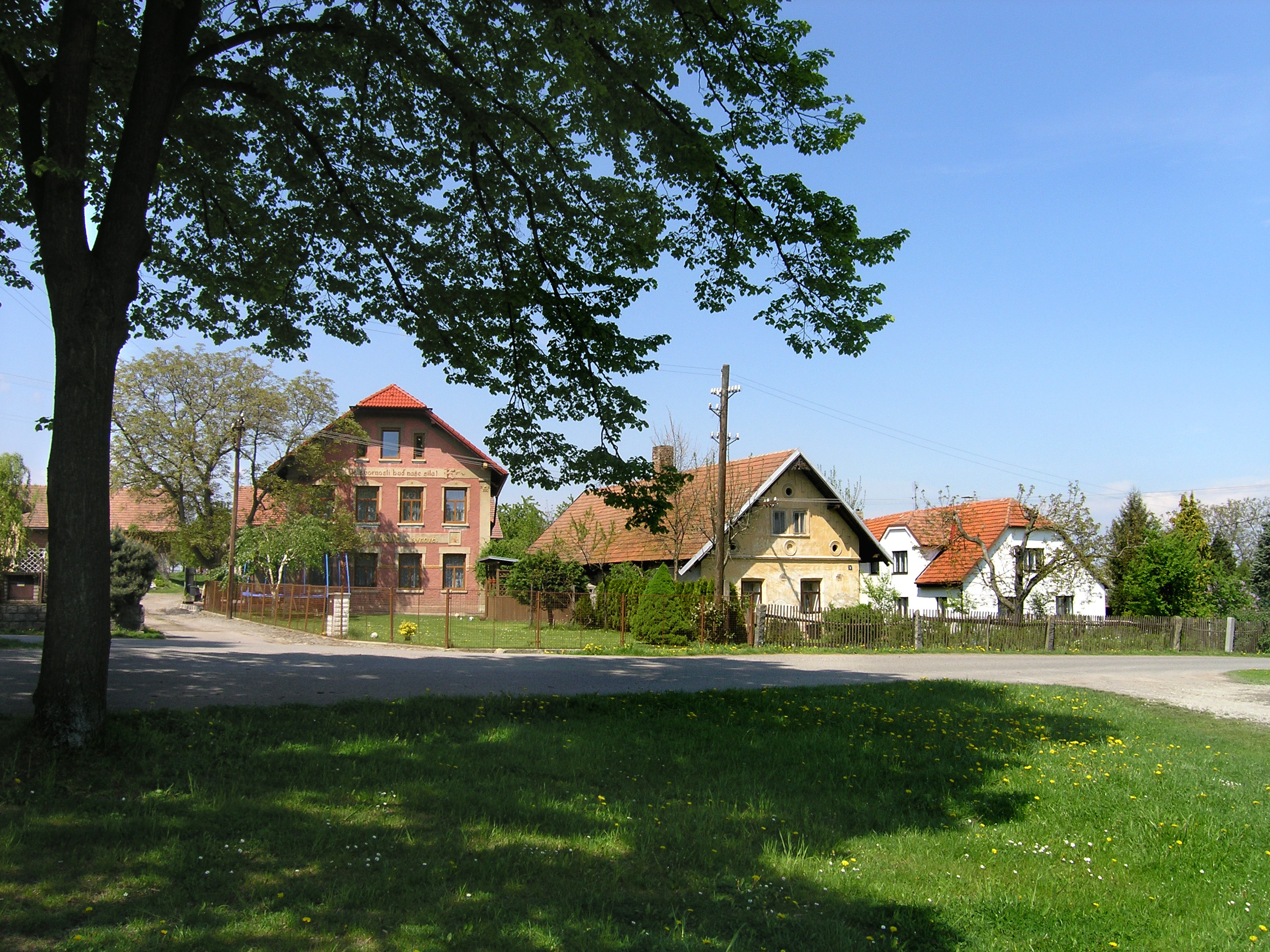 Common in Mrákotín village, Czech Republic